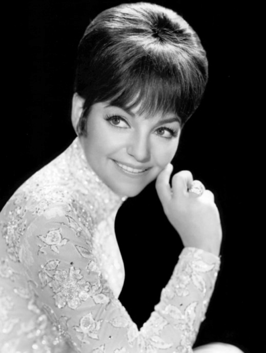 Publicity photo of singer June Valli.